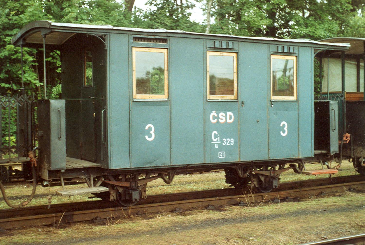 Small 2-axled carriage of the JHMD in Jindřichův Hradec).